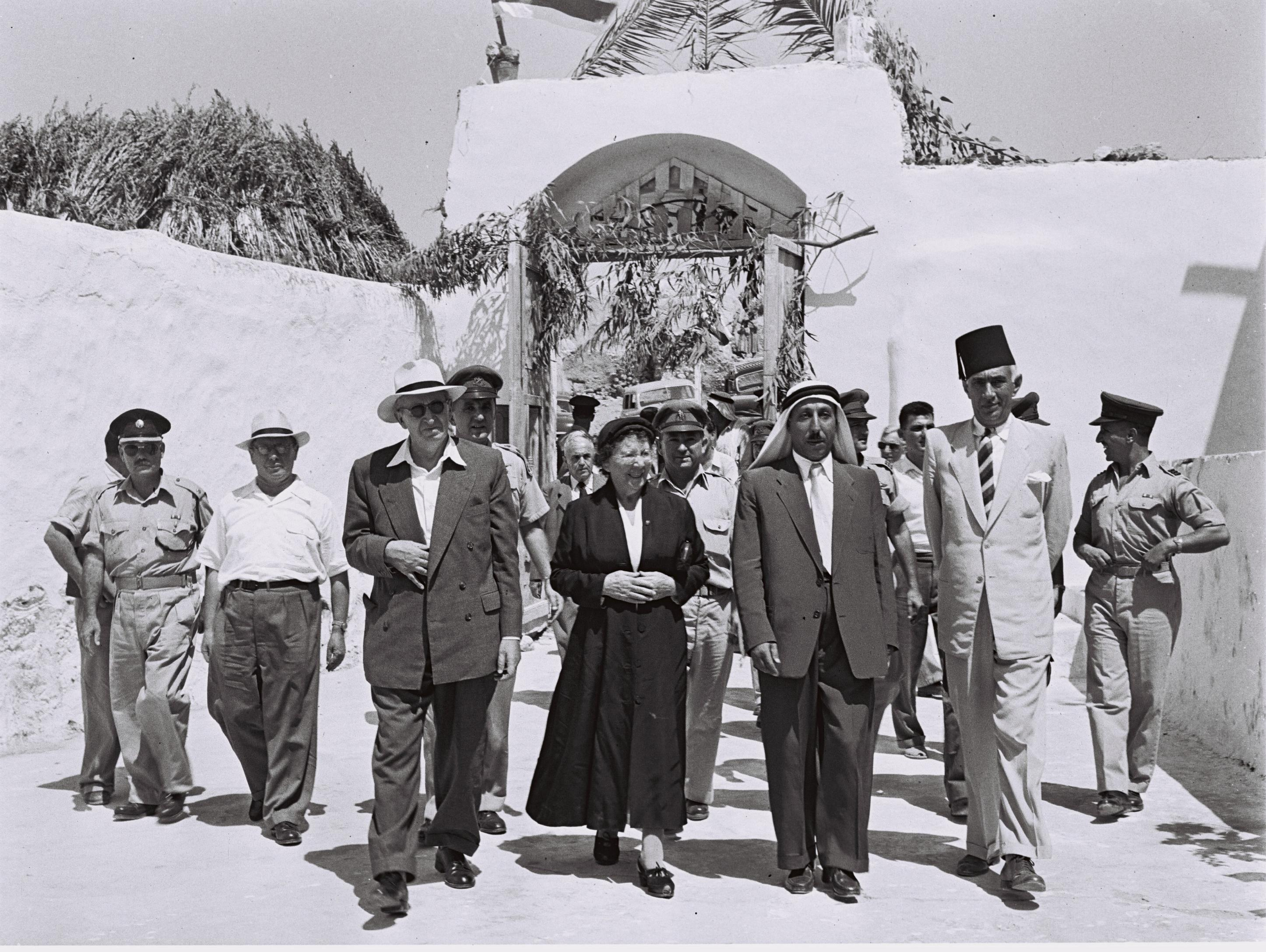 President Ben Zvi and Mrs. Ben-Zvi visiting the house of Knesset Member Fares Hamdan in Baqa al-Gharbiyye (1956)